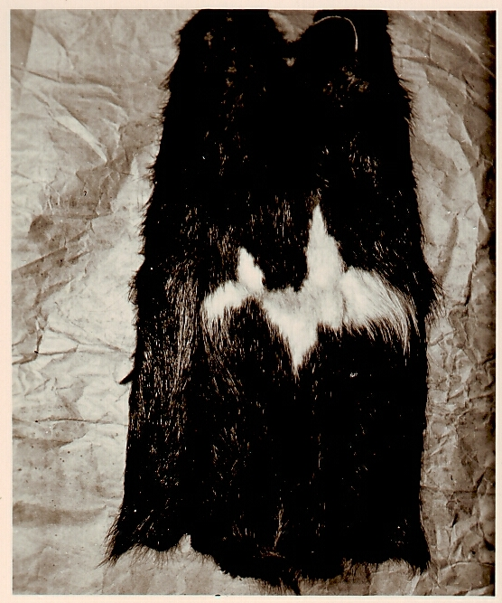 Impressions of a fur-skin grader at VEAB-Leipzig, DDR